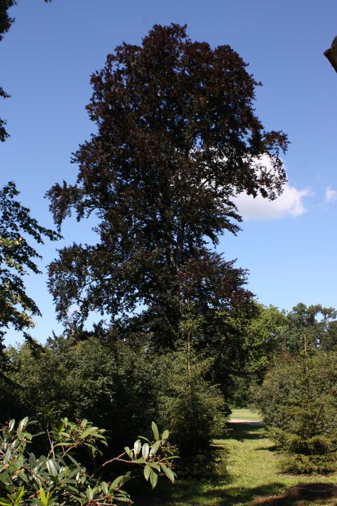 Lednice na Moravě, Czech republic, english park